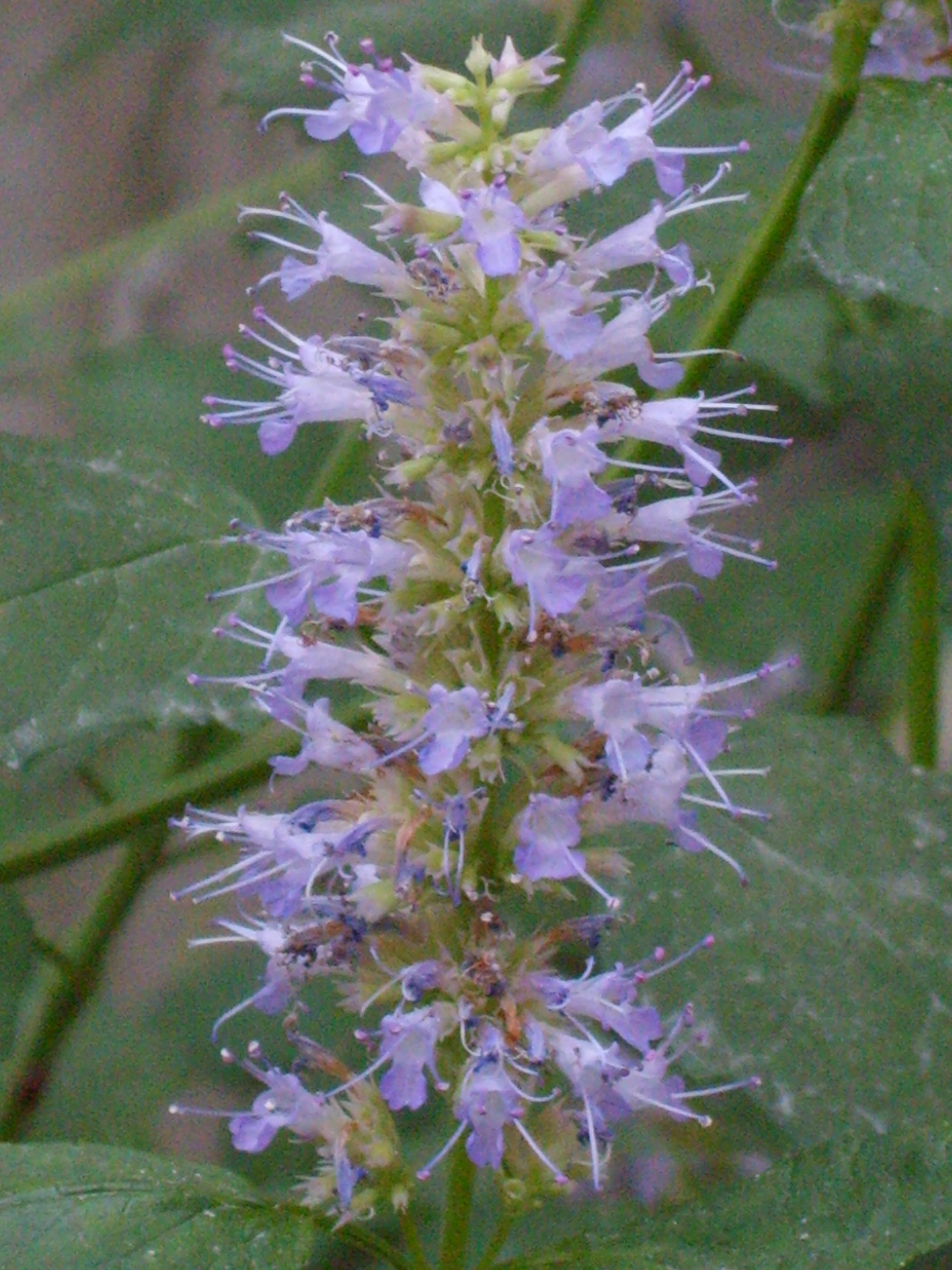 Agastache rugosa in Bupyung, Korea